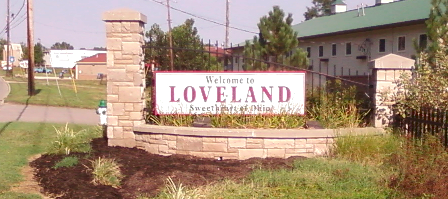 A sign welcoming motorists to the city of Loveland, Ohio, United States, the "Sweetheart of Ohio". The sign is part of a larger, gate-like installation on both sides of Loveland–Madeira Road.